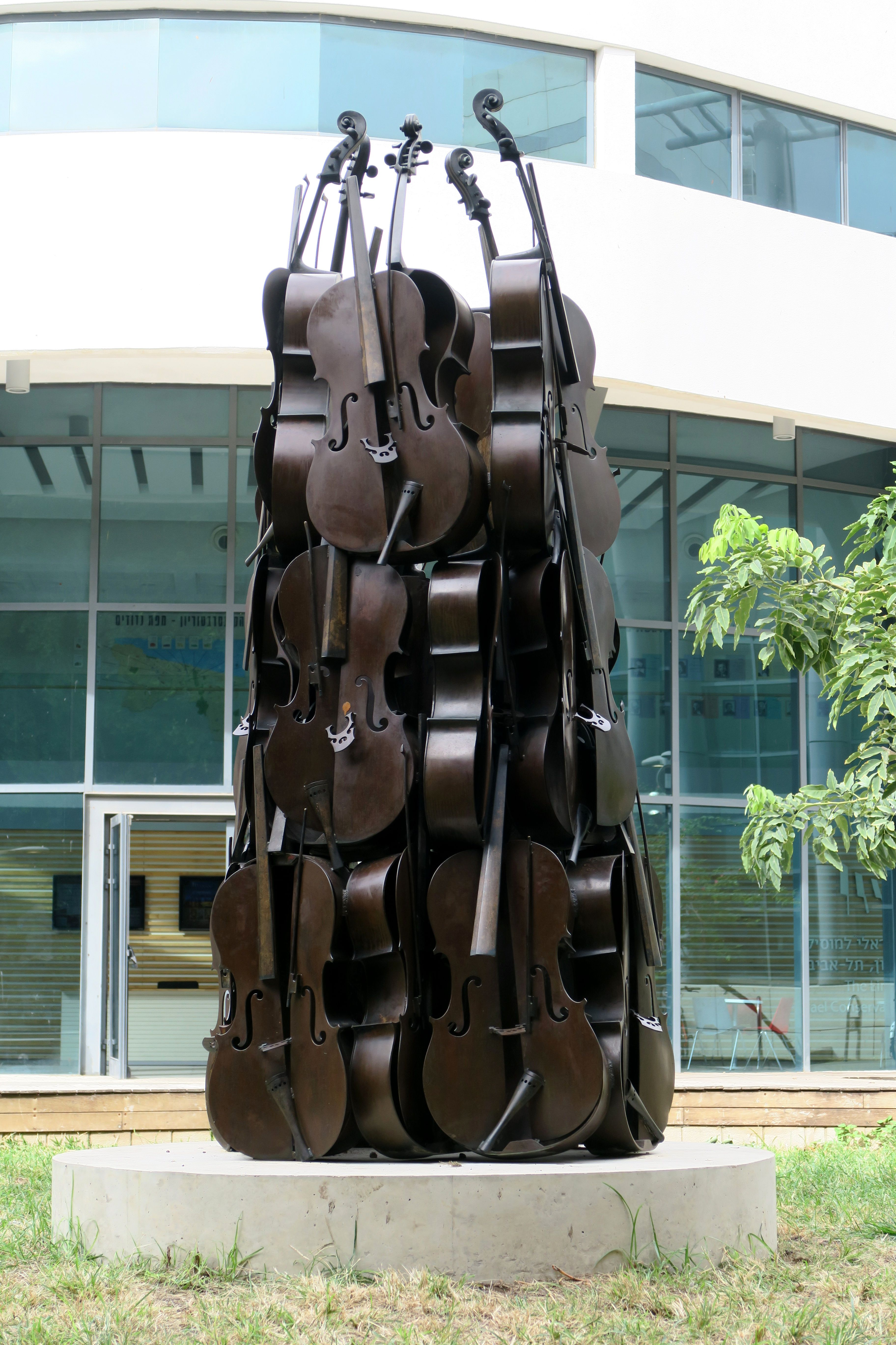 'Music Power No. 2', bronze sculpture by Armand Fernandez (1986), Israel Conservatory of Music, 19 Stricker Street, Tel Aviv.